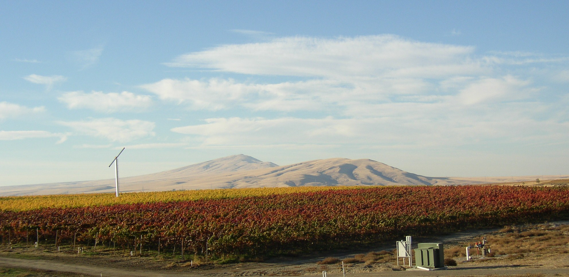 Rattlesnake Mountain as seen over the Kiona Vineyard in the Red Mountain AVA in south-central Washington state.